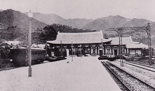 Uchi-Kongo Station on the Kongosan Electric Railway